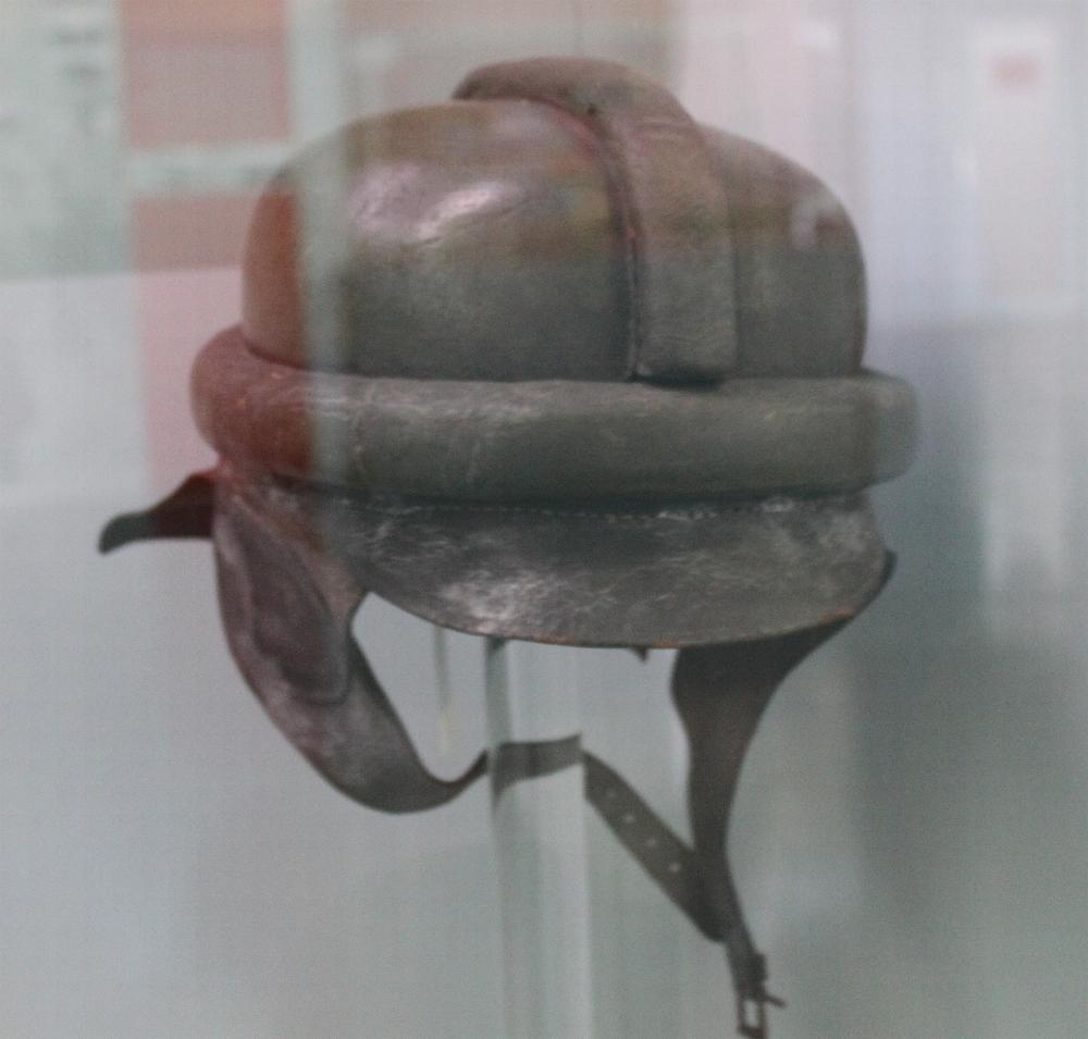 Leather Flight Helmet, coloured Feldgrau, Germany 1914